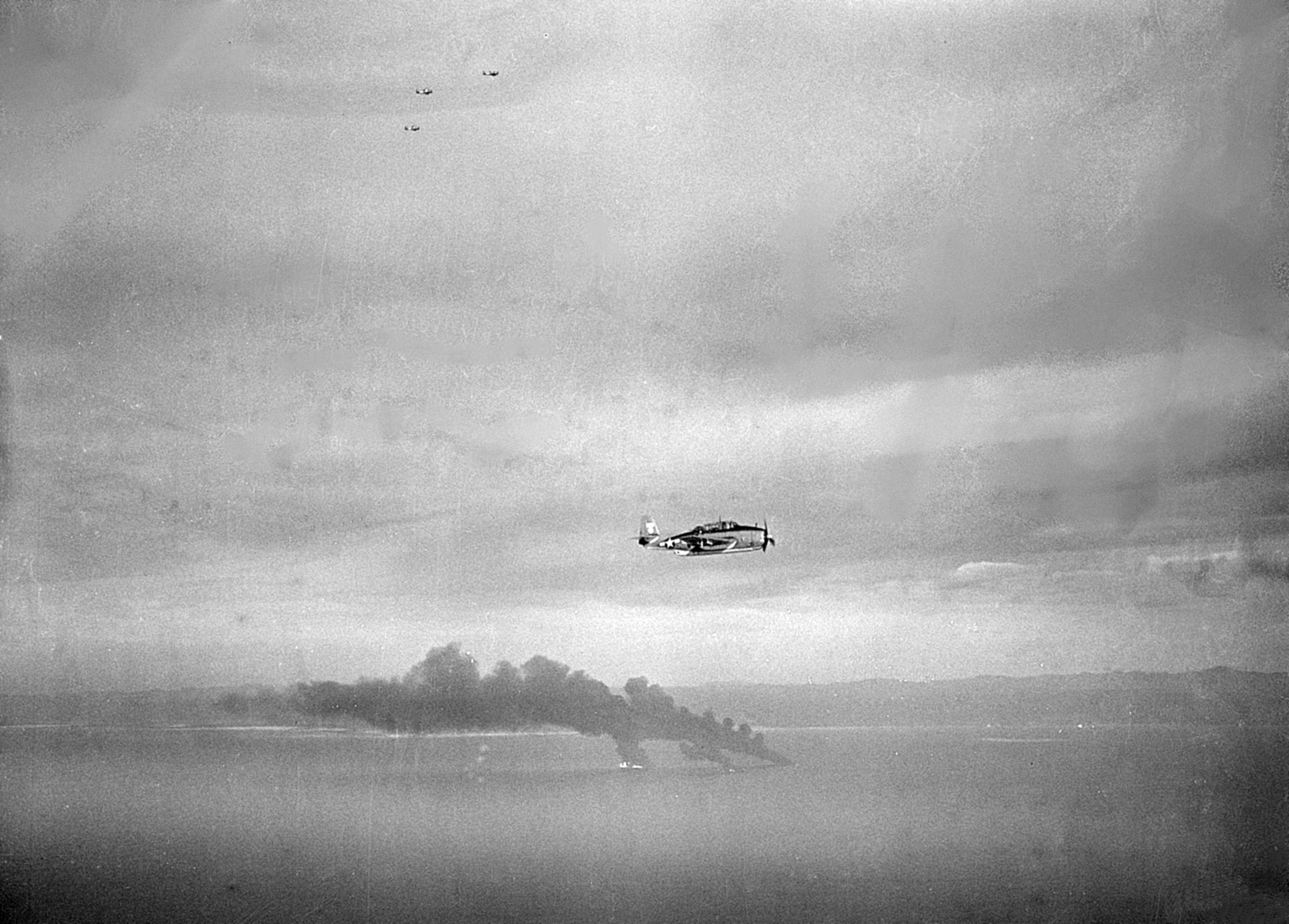 A U.S. Navy Grumman TBM-3 Avenger of torpedo squadron VT-11 from the aircraft USS Hornet (CV-12) flies past three Japanese oilers burning in Cam Ranh Bay, Indochina (later Vietnam), on 12 January 1945.